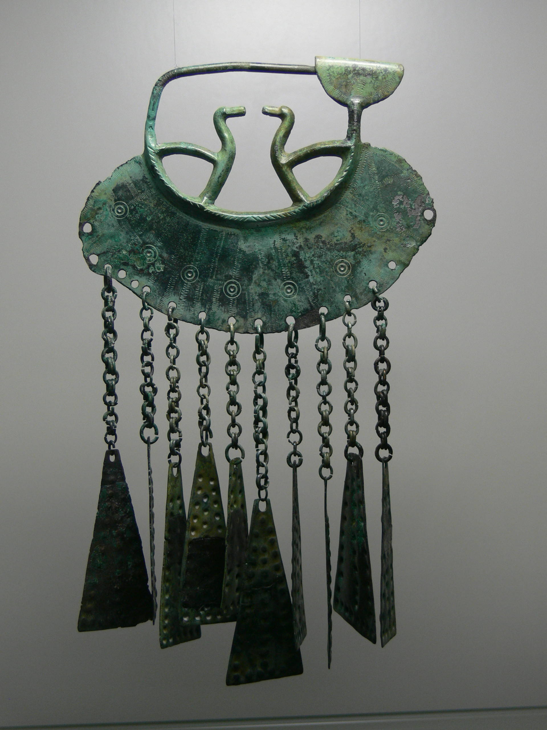 Castle museums in Linz ( Upper Austria ). Archeological collection: Celtic fibula from Hallstatt, Hallstatt culture.